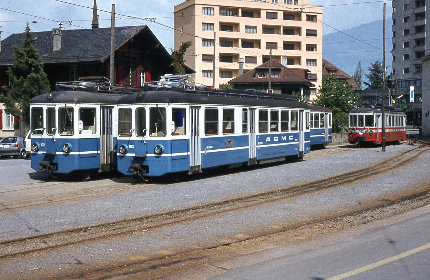 Old B.L.T. trams in the B.L.T. color scheme at the former station in Monthey (This station is no longer present)